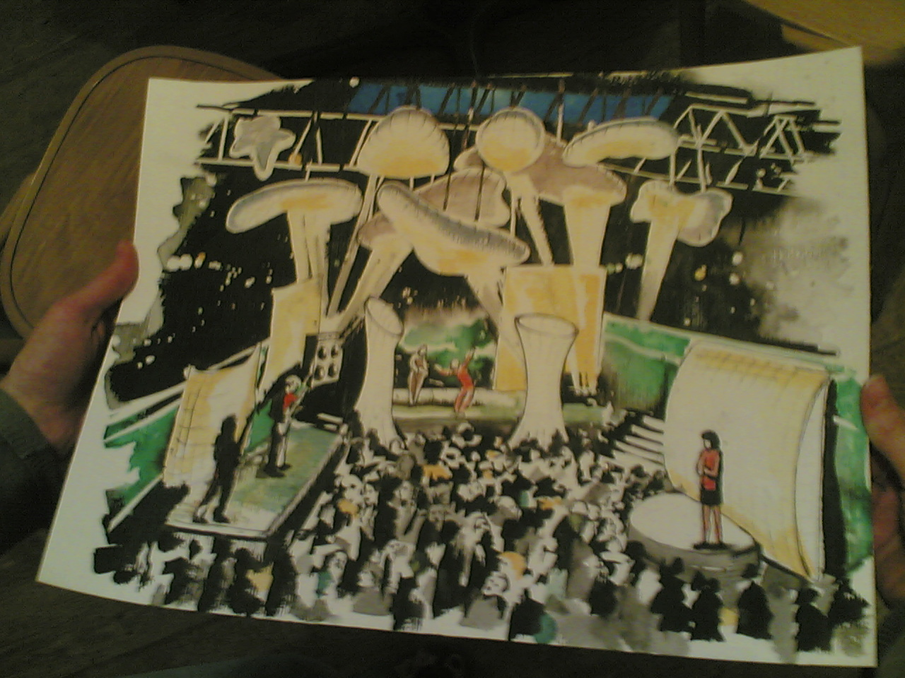 An image produced by Martin Vernon as a possible design for the first Project X Presents event "Like Fxck" in 2006